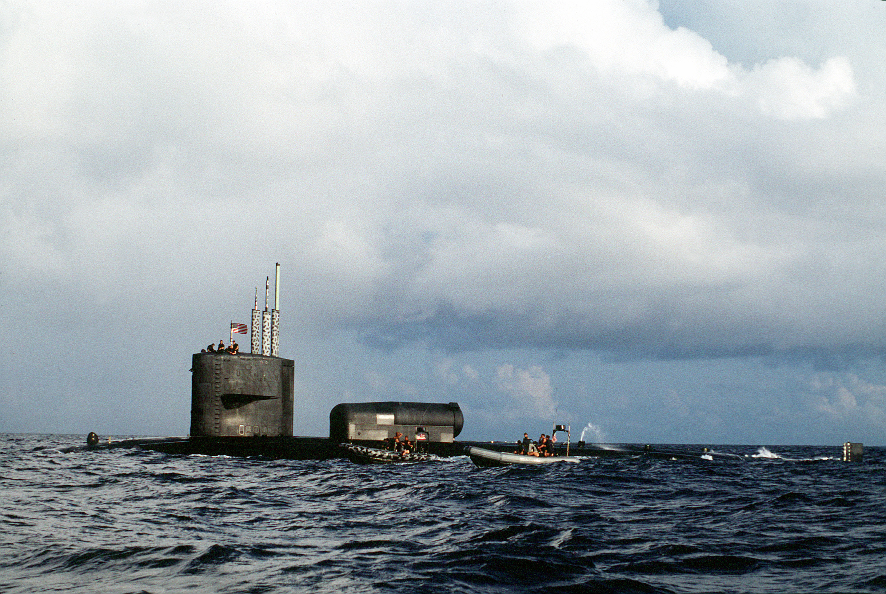 A pair of rigid-hull inflatable boats from Special Boat Unit 4 (SBU-4) operate alongside the nuclear-powered attack submarine USS ARCHERFISH (SSN-678) during the joint service exercise Ocean Venture '93. The ARCHERFISH has a dry deck shelter attached to its deck.